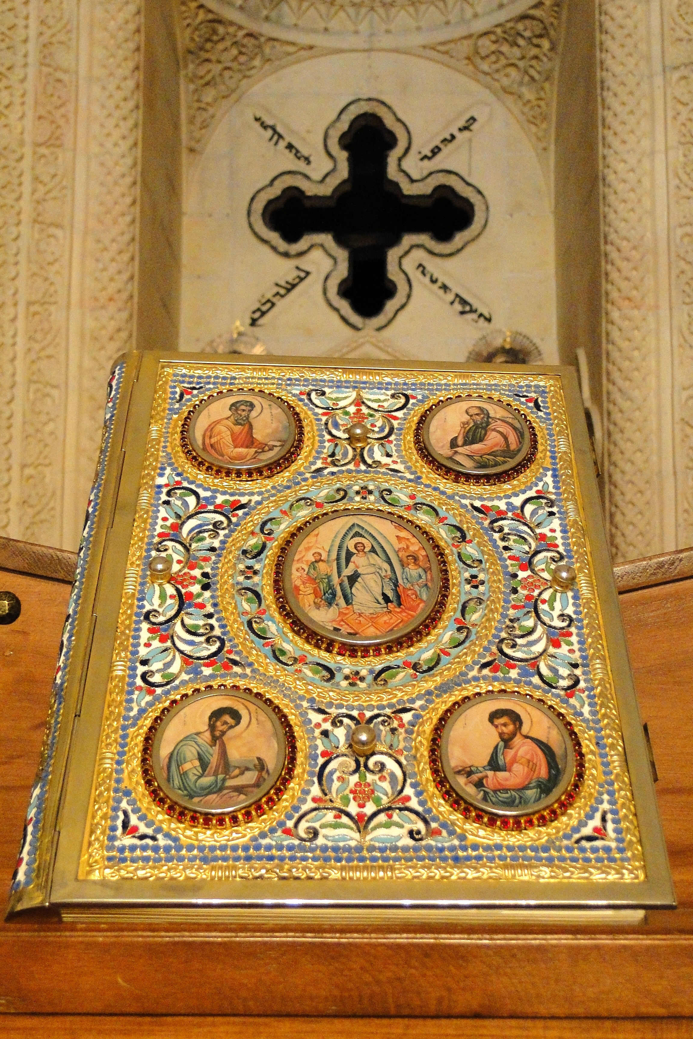 Bible and Pulpit - Deyrul Zafaran - Ancient Syriac Monastery - Outside Mardin - Turkey